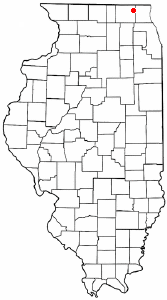 Category:Illinois city locator maps